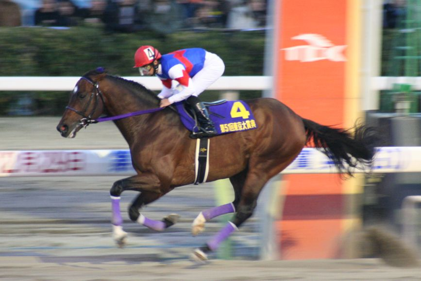 Adjudi Mitsu O